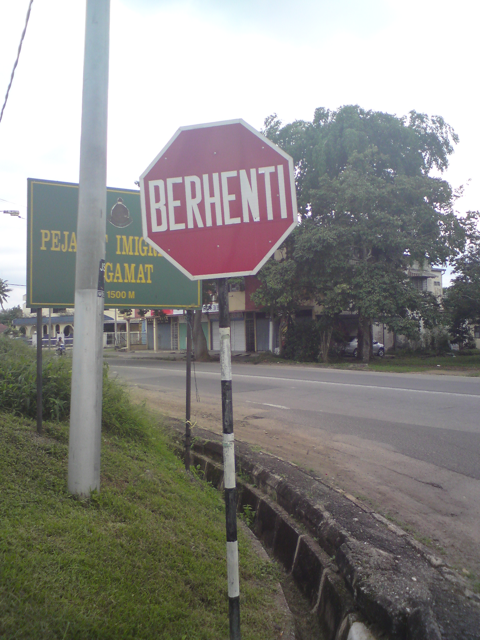 A typical stop sign in Segamat, Malaysia.